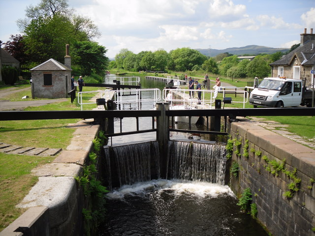 Lock gates on the Forth & Clyde Canal The small boat is waiting to be lowered then the gates will open for it to continue on its journey.